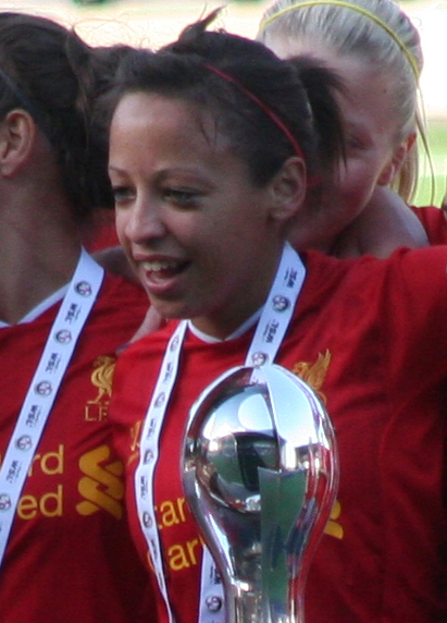 Liverpool L.F.C. - 2013 FA WSL Championship celebration